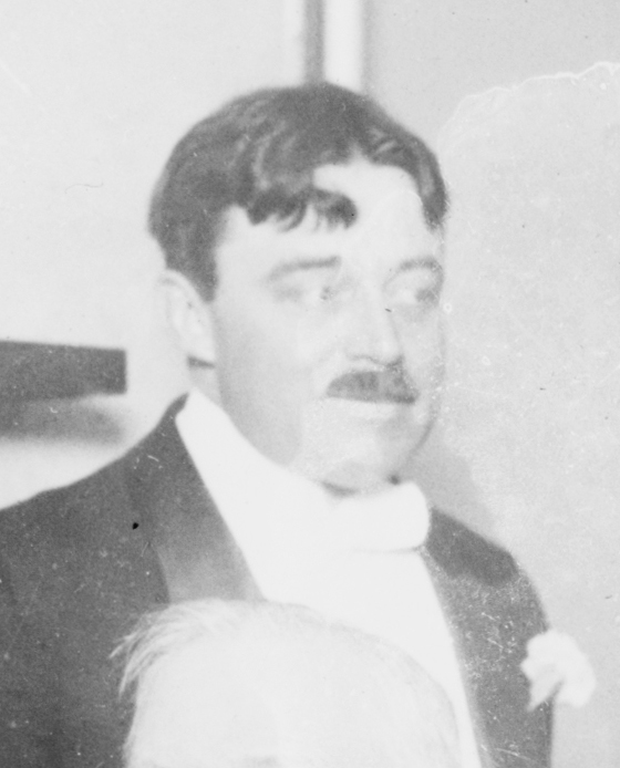 Dr. Robert Bowie Owens. This image was taken in Philadelphia on May 19, 1915 on the occasion of the awarding of the Franklin Medal. Bain News Service, publisher. Notes: Title from unverified data provided by the Bain News Service on the negatives or caption cards. Forms part of: George Grantham Bain Collection (Library of Congress). Format: Glass negatives. Repository: Library of Congress, Prints and Photographs Division, Washington, D.C. 20540 USA, General information about the Bain Collection is available at Higher resolution image is available (Persistent URL):Call Number: LC-B2- 3486-12